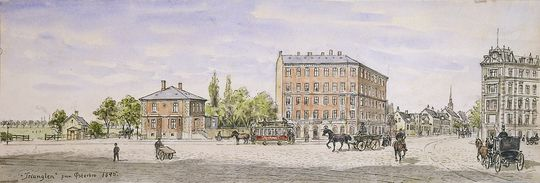 Trianglen in the Østerbro district of Copenhagen as seen in 1895